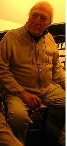 Bruce Jay Freidman, 2014